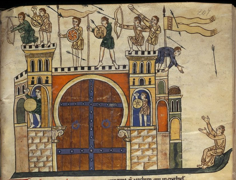 Rylands Beatus Commentary on the Apocalypse by Beatus of Liébana, Castile (Burgos?), copy of c.1175